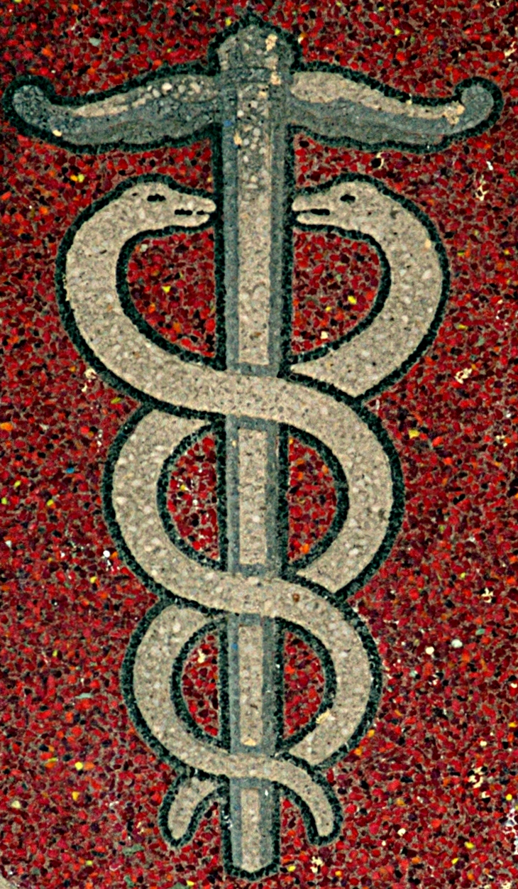 Caduceus wall mosaic (Silver Spring, MD)